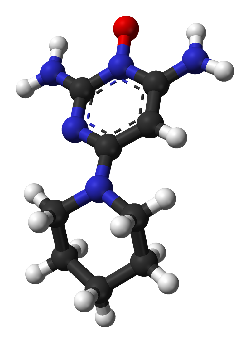 Ball-and-stick model of the minoxidil molecule, C9H15N5O. Structural data from Hiroyuki Akama, Masayuki Haramura, Akito Tanaka, Toshio Akimoto, Noriaki Hirayama (2004). "Crystal Structure of Minoxidil". Analytical Sciences 20: x29-x30. Image generated in Accelrys DS Visualizer.